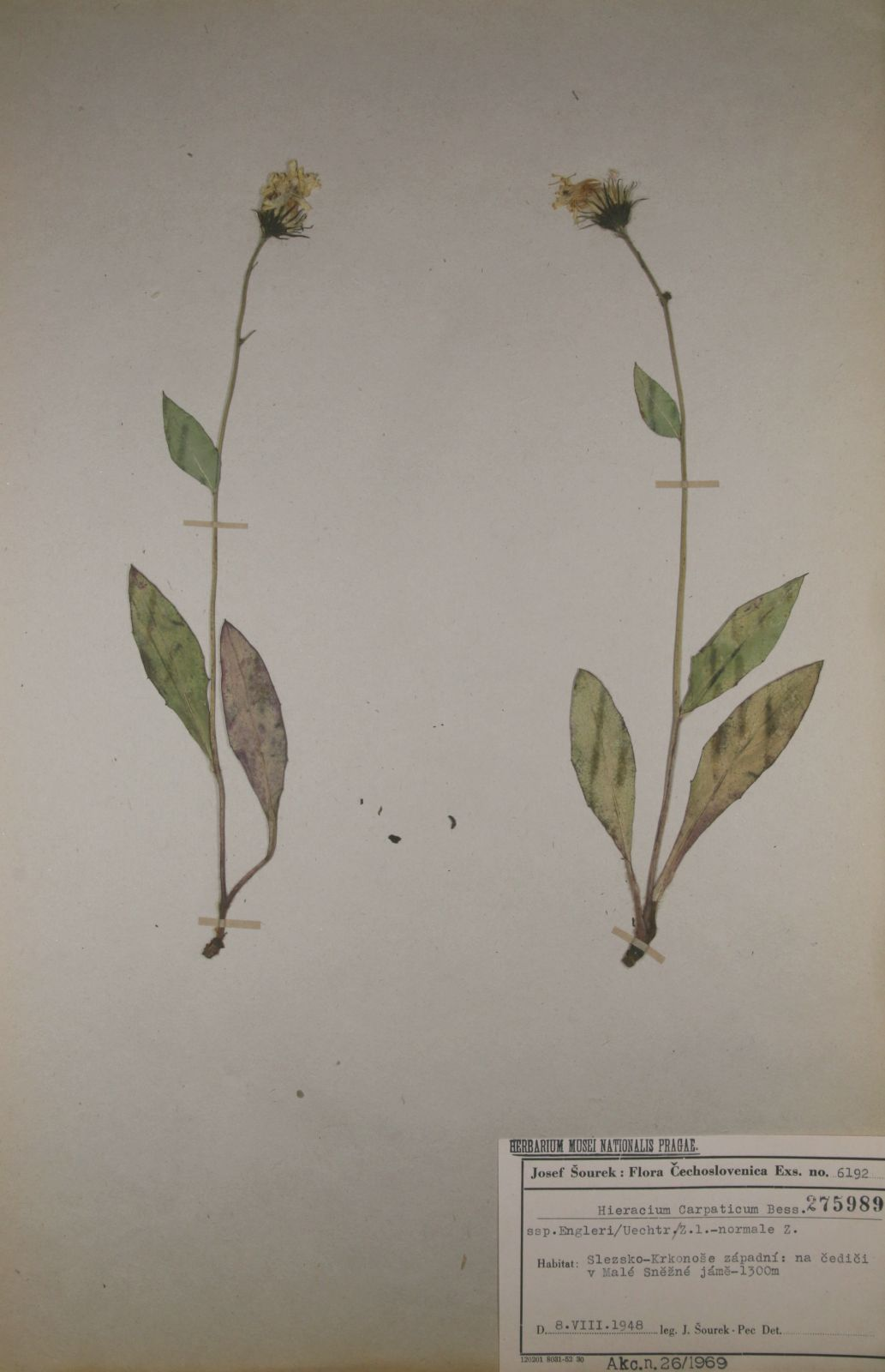 Herbarium specimen of Hieracium engleri